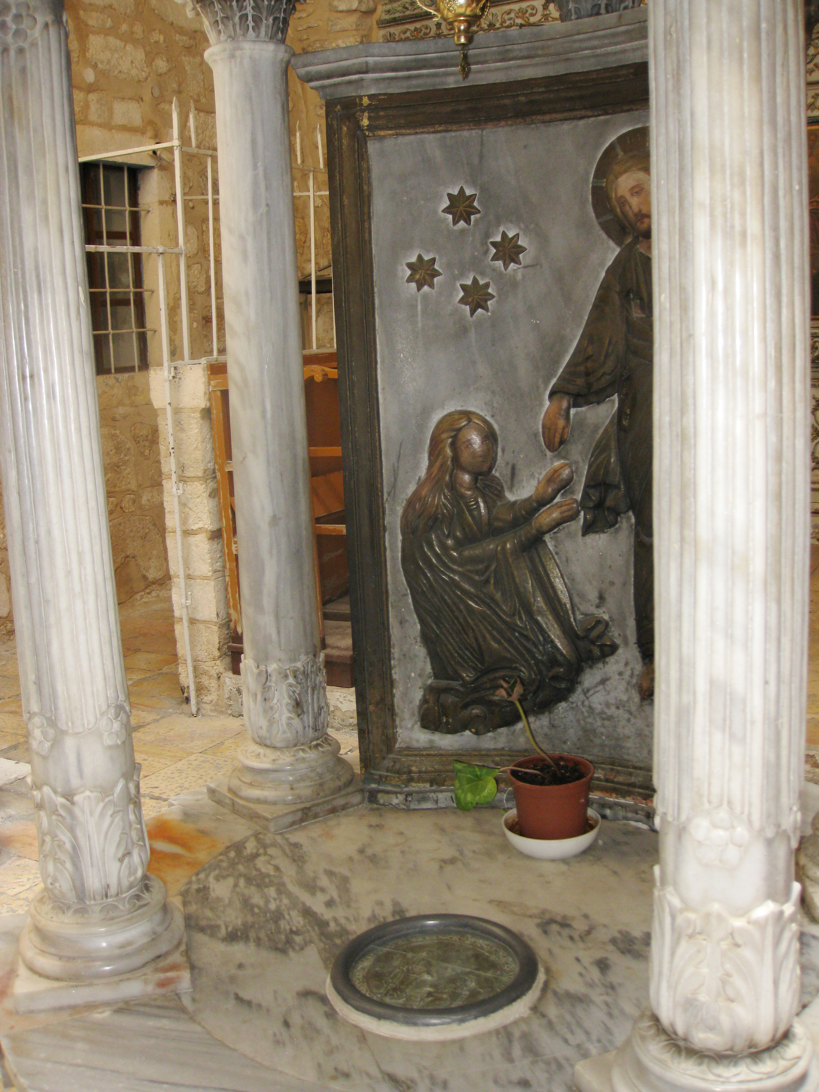 The Place where Maria Magdalene met Jesus in the Chapel of John the Baptist in the Church of the Holy sepulchre